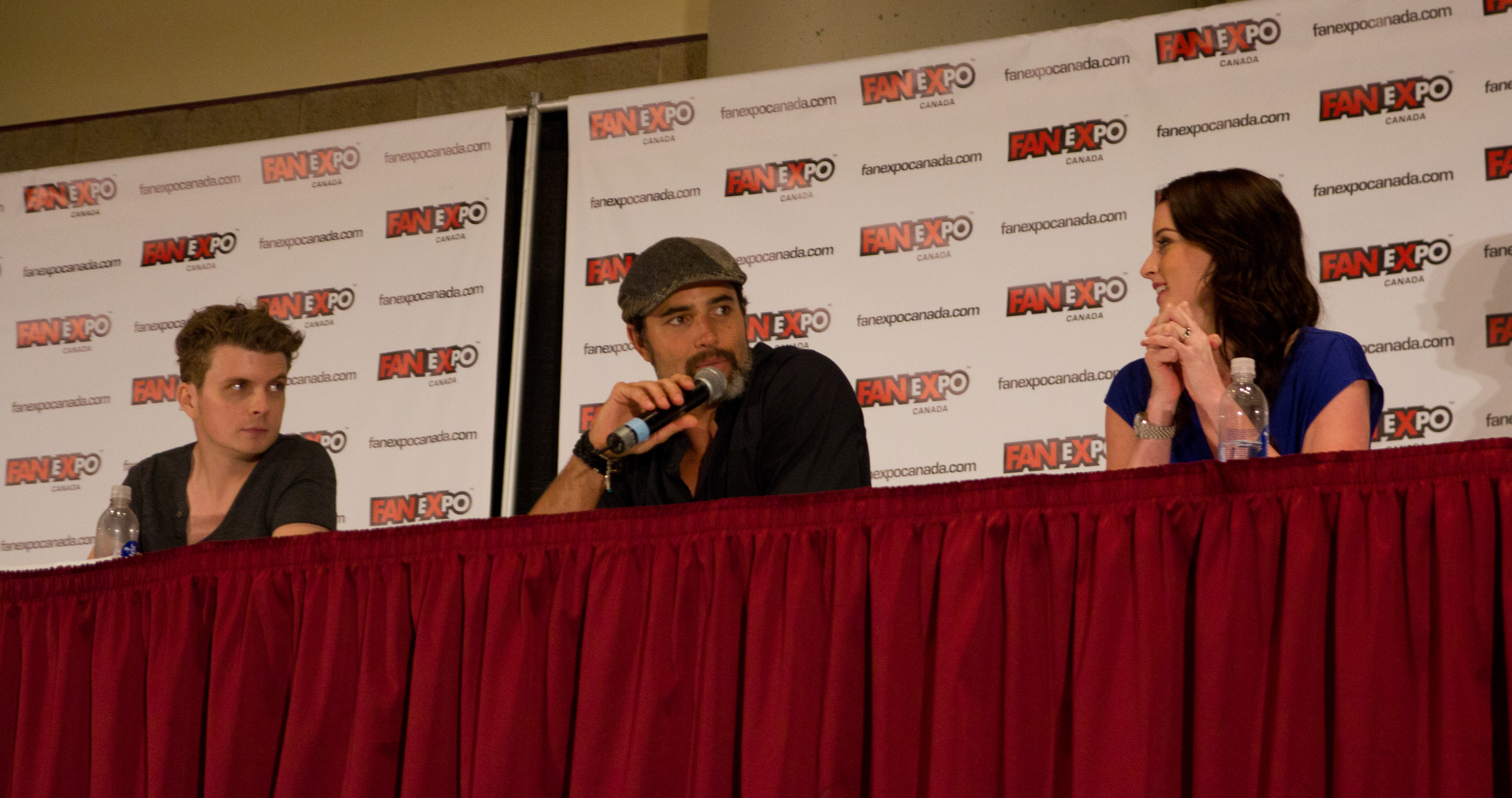 The three leads actors of the TV show at the 2012 FanExpo Canada. From left: Erik Knudsen, Victor Webster and Rachel Nichols